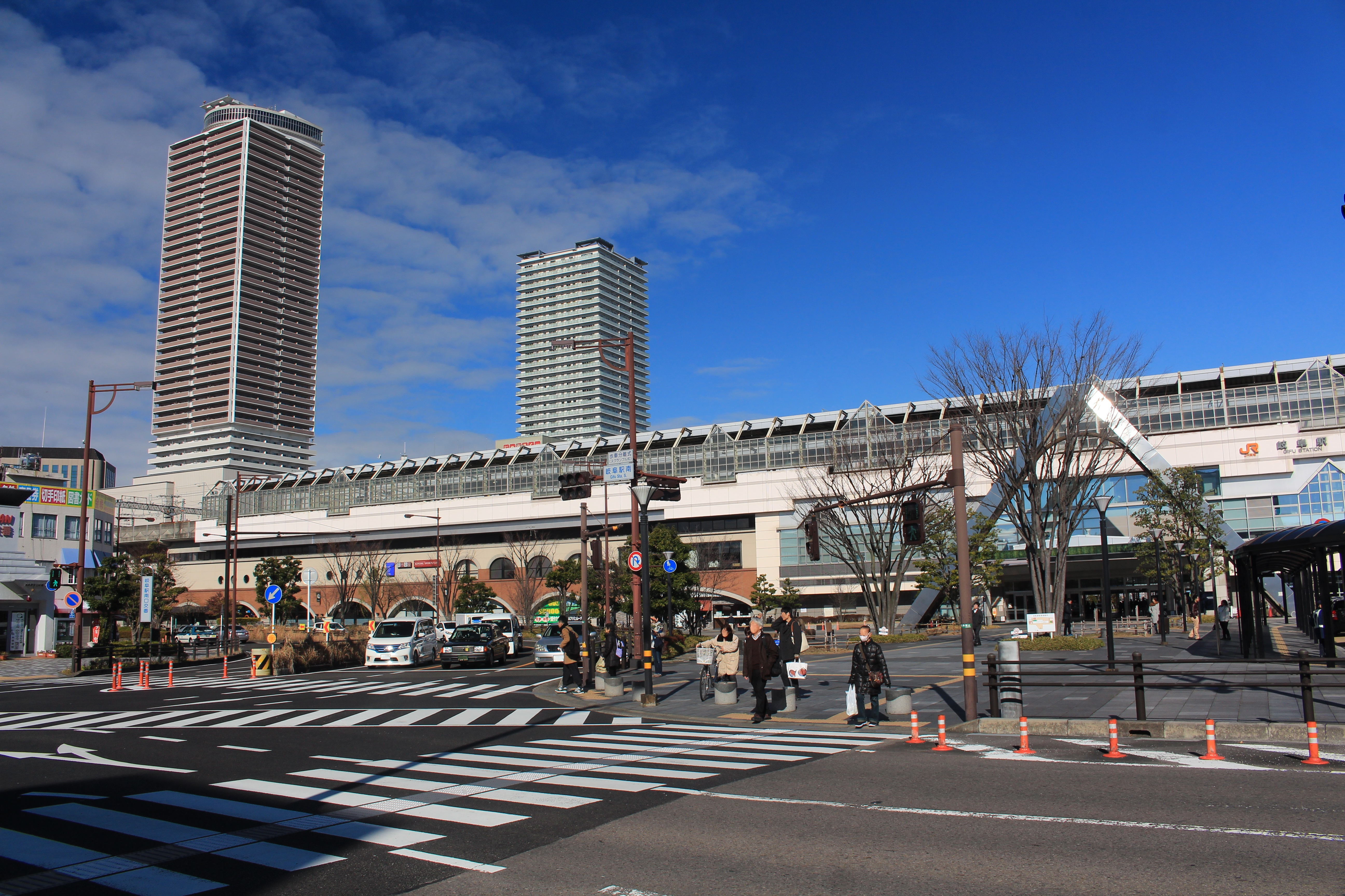 Gifu Station, Gifu City Tower 43 and Gifu Sky Wing 37 seen from the south entrance in Gifu city, Gifu prefecture, Japan